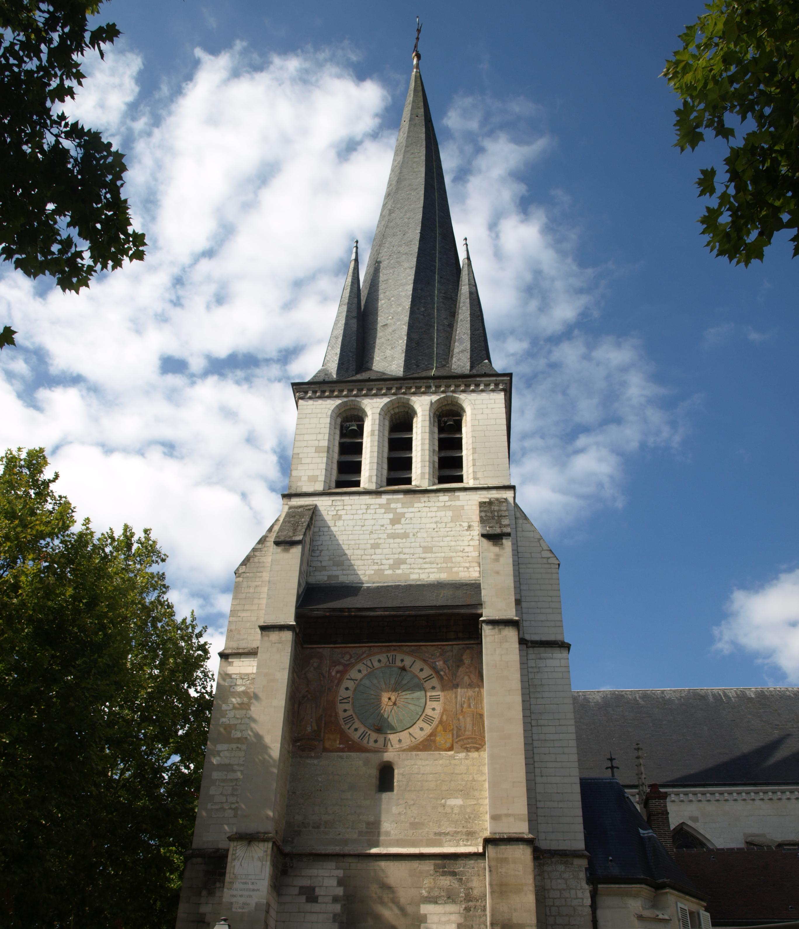 Saint-Remy church